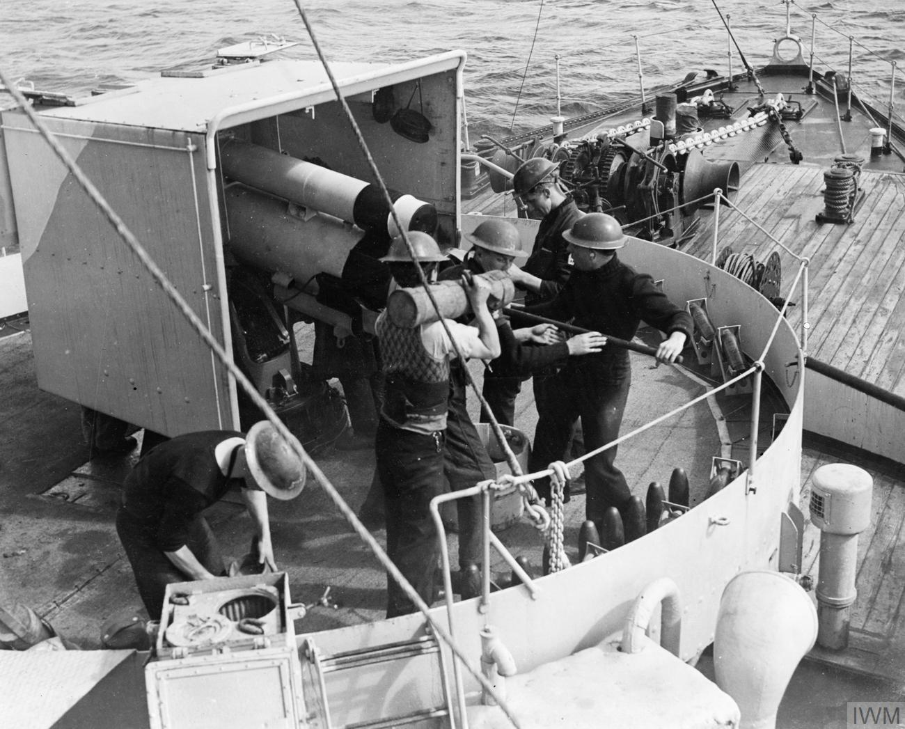 IWM caption : "The gun crew loading the single 4 inch Mark IX gun of HMS VERVAIN whilst she is on active service."